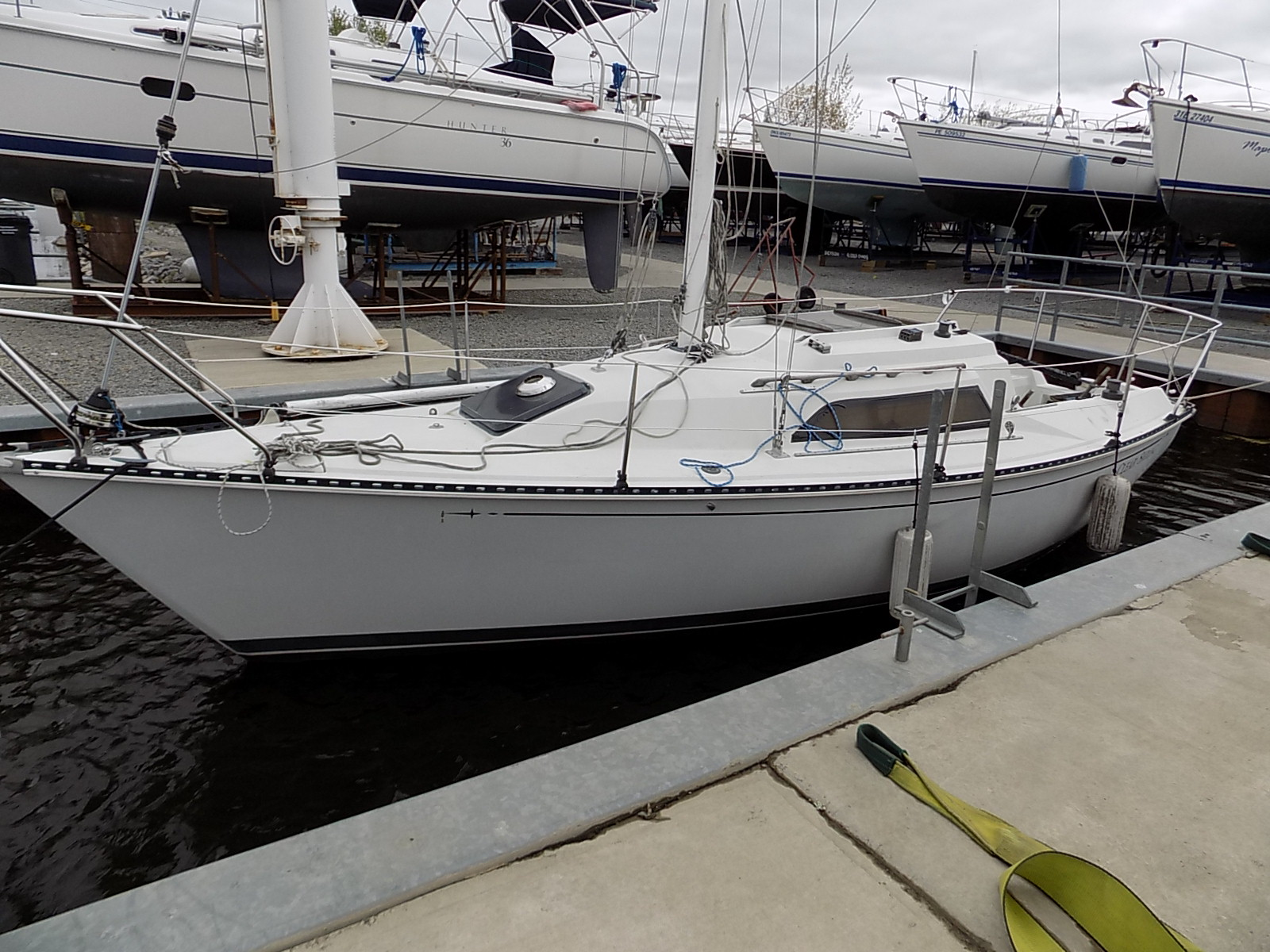 A C&C 27 Mk V sailboat in the crane bay after launching.